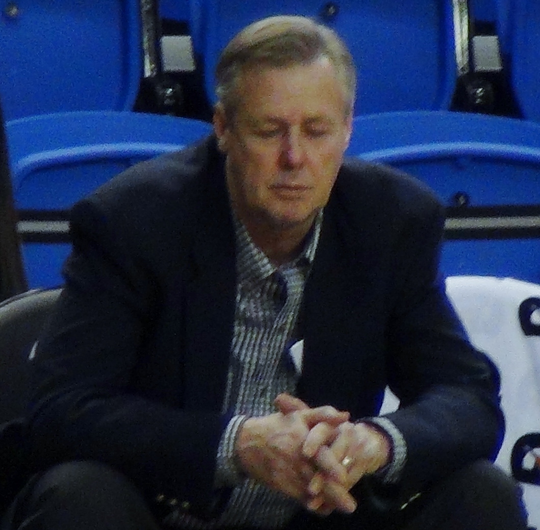 Colorado State University men's basketball associate head coach Steve Barnes on the bench during a game at San Jose State on Jan. 4, 2017.